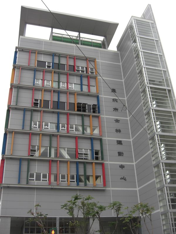 Taipei Shilin Sports Center.中文（台灣）: 臺北市士林運動中心。